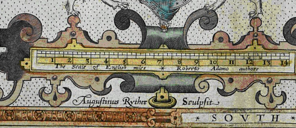 detail of "the battle of the isle of wight"